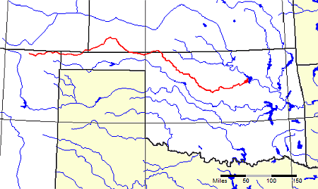 Map is taken from the National Atlas (which is in the public domain) and modified to show the Cimarron River in red. Category:Oklahoma maps